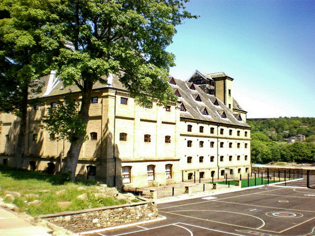 The Maltings Formerly Samuel Websters' Fountain Head Brewery.